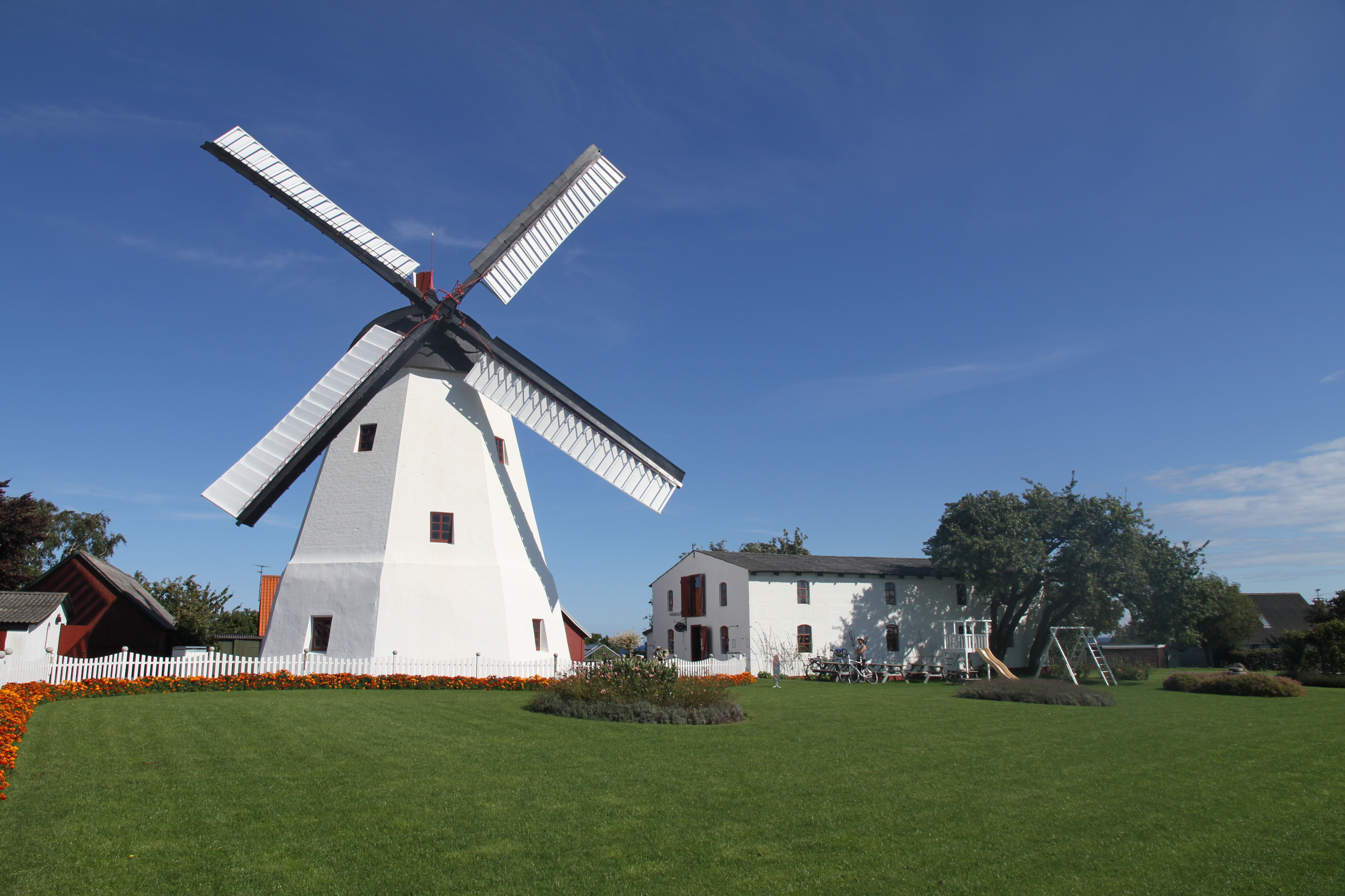 Årsdale Mill from 1877, Svaneke, Bornholm, Denmark.